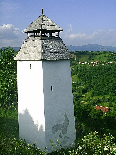 A tower of the Prusac castle, BiH